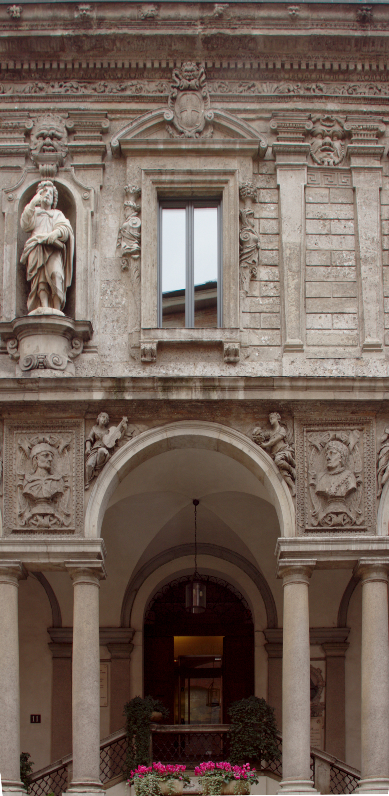 Scuole palatine - Milan 2014